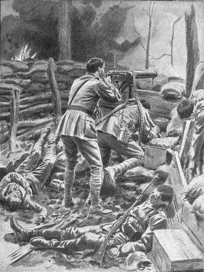 Caption: "The Canadians in a Hot Corner.Lieutenant Campbell hoisted his gun on to the broad back of his companion (Private Vincent) and poured a stream of bullets upon the enemy."